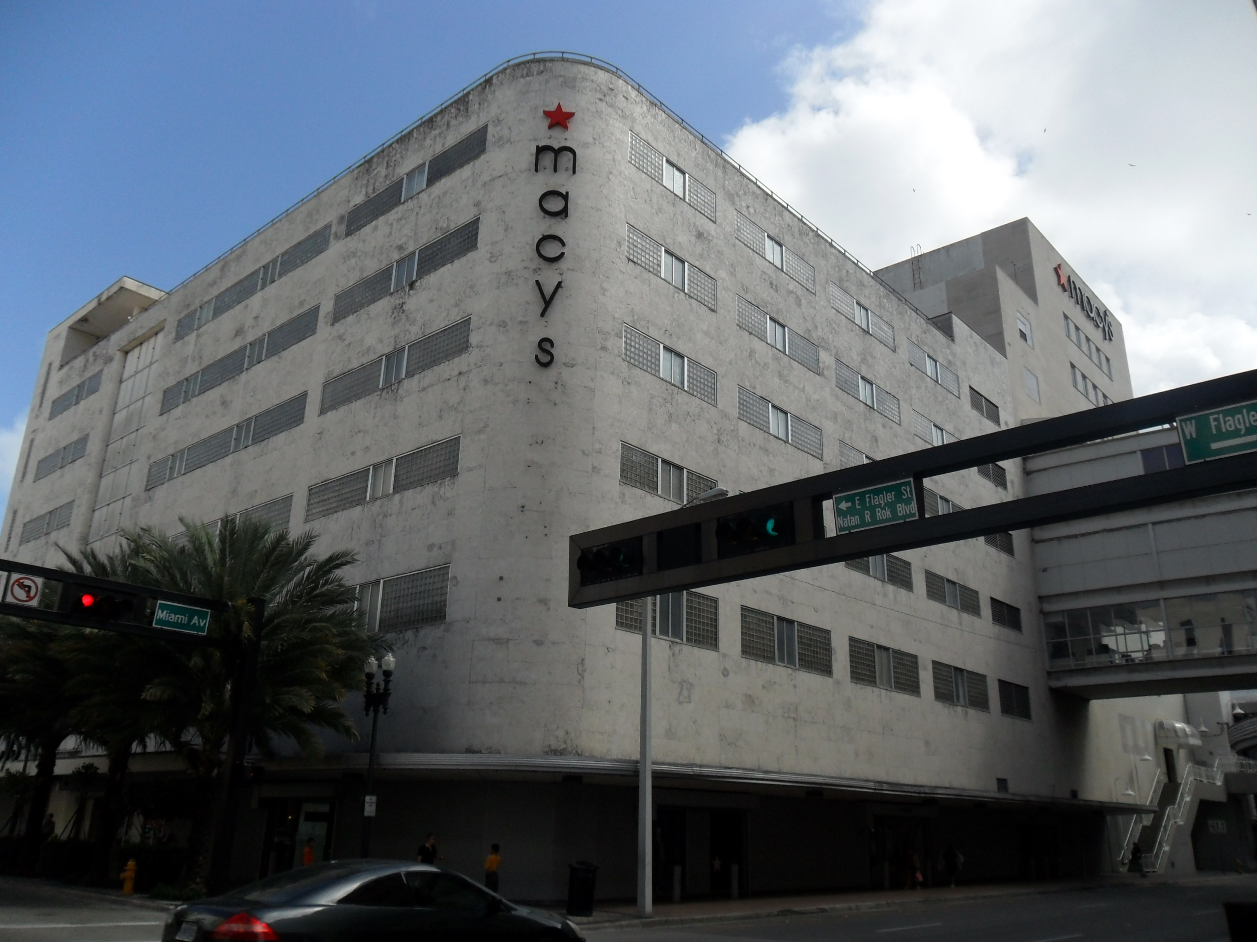 Macy's in downtown Miami, former Burdine's Department Store